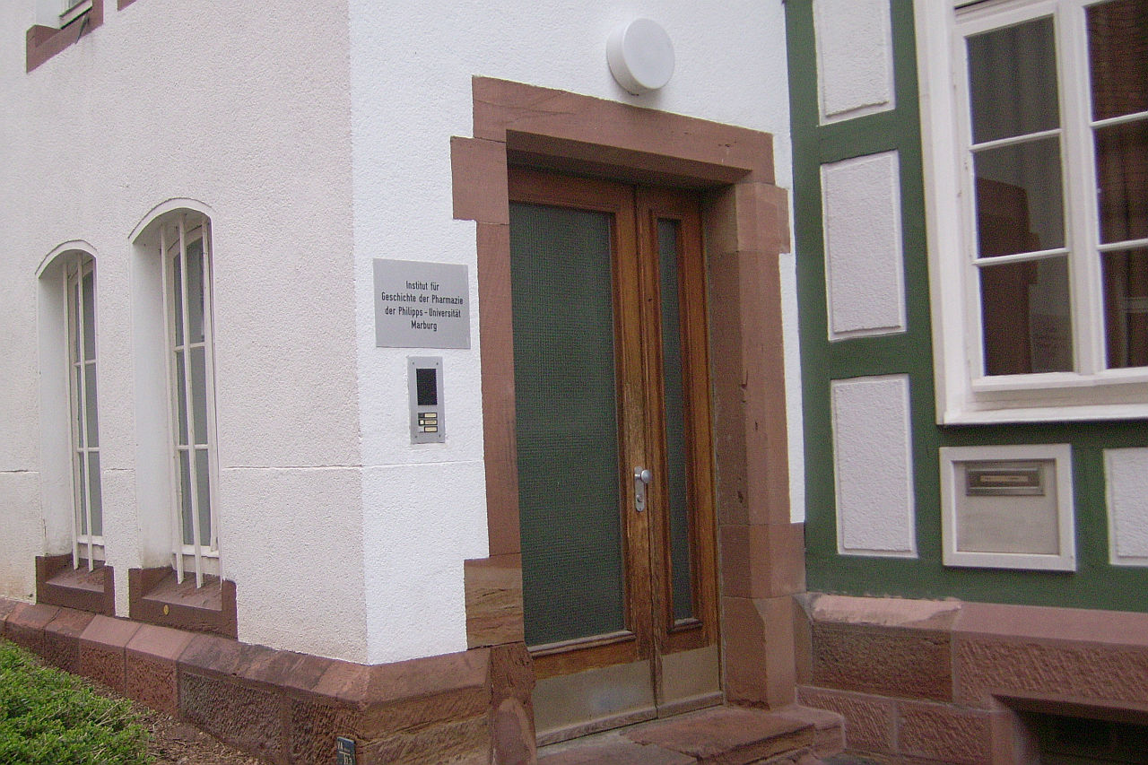 Building of Institute for History of Pharmacy (University Marburg)